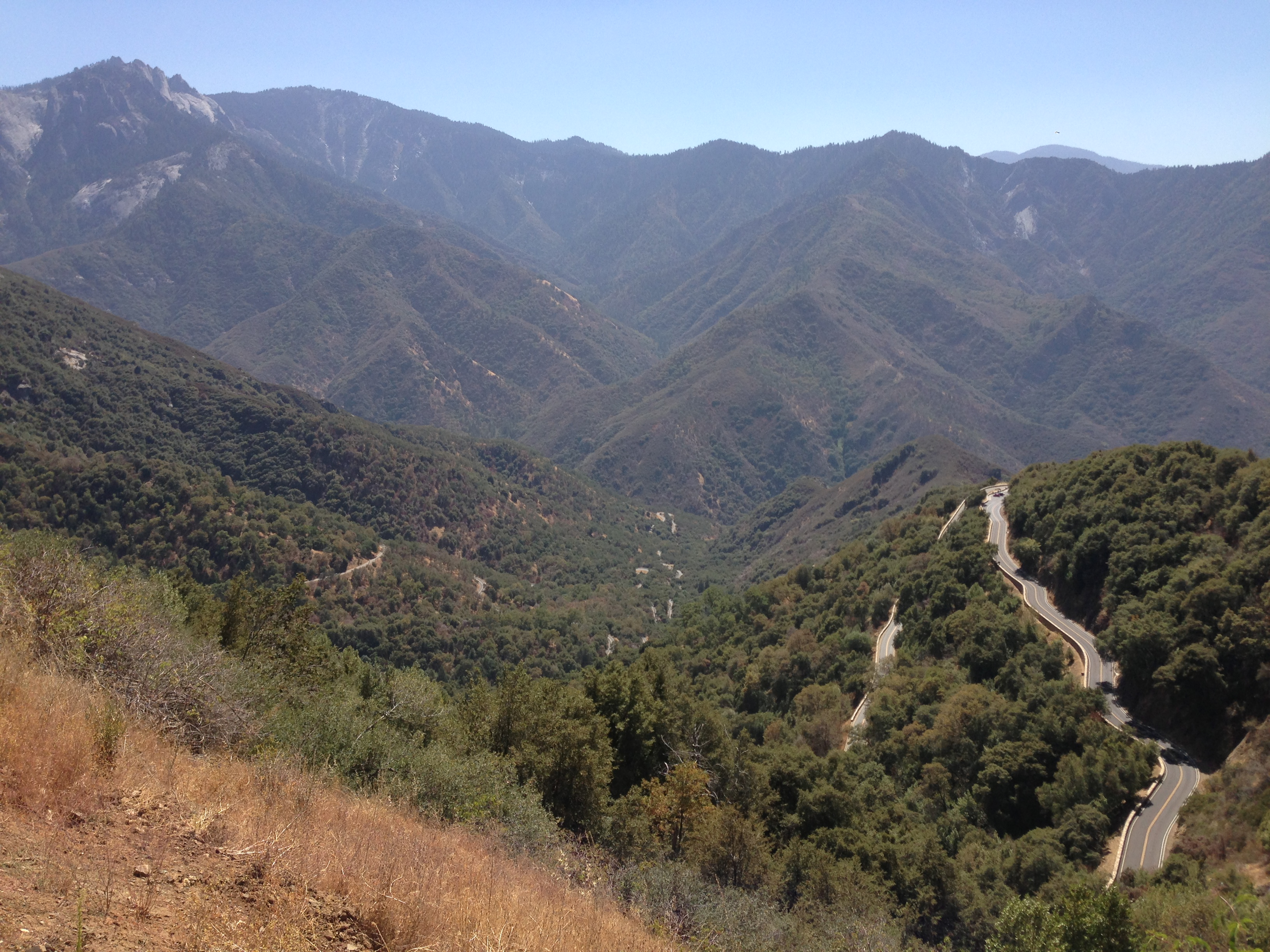 View from Generals Highway in Sequoia National Park north of Amphitheater Point